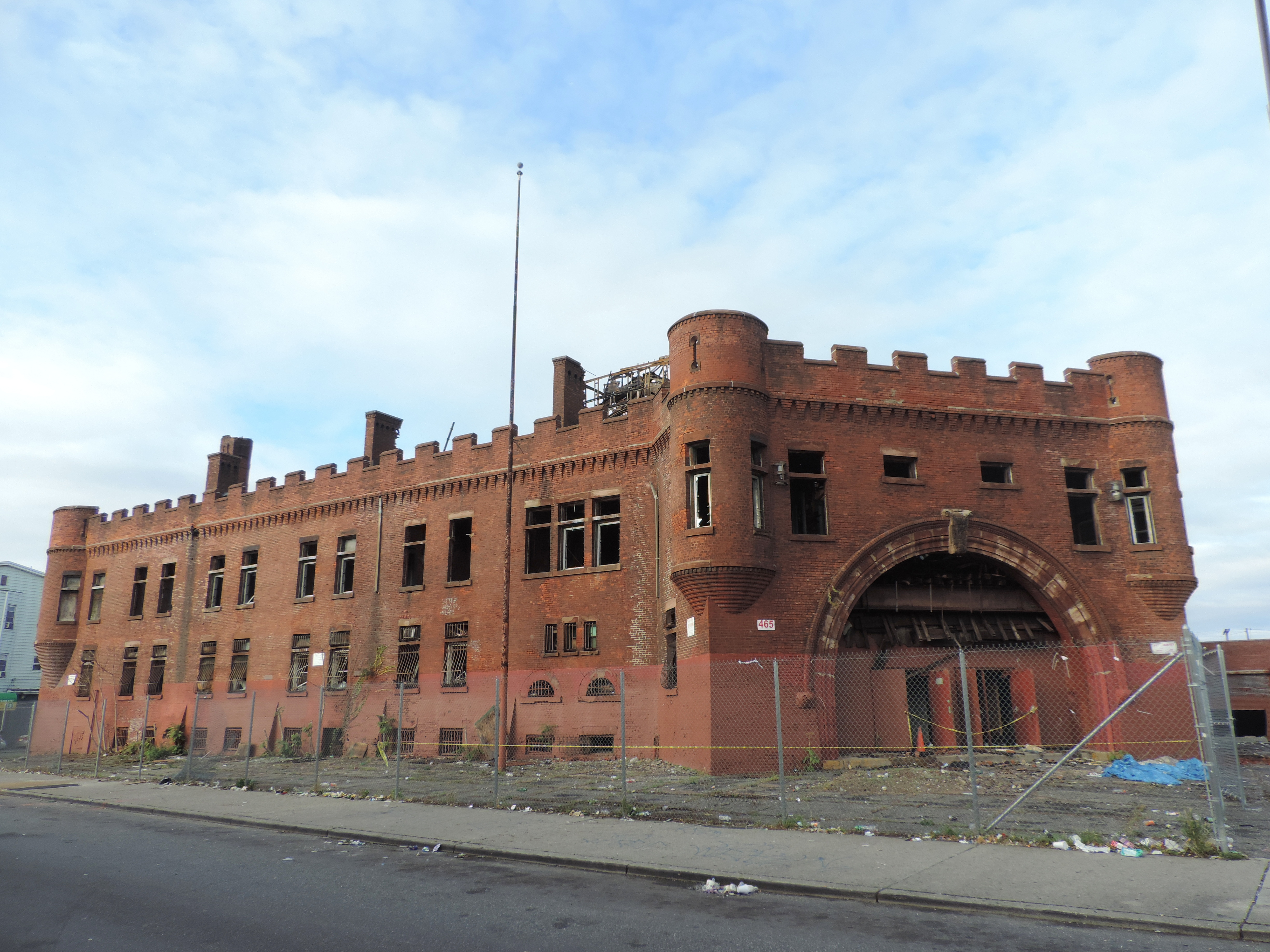 Looking north across Market Street at south wall and front gate